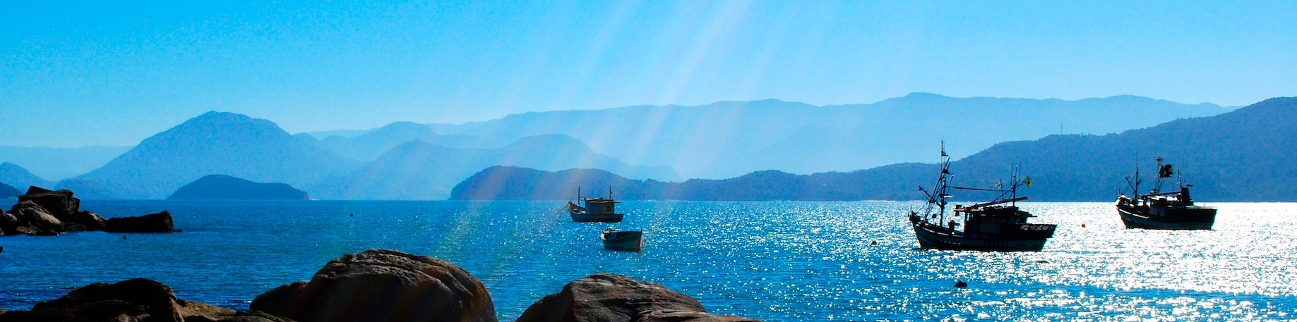 Picinguaba, Ubatuba, São Paulo, Brazil.